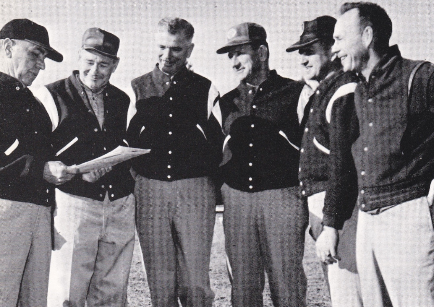 Louisiana Tech football coaches of 1966, from left Joe Aillet, George Doherty, Jim Mize, Huey Williamson, E. J. Lewis, and Lee Hedges on the right.